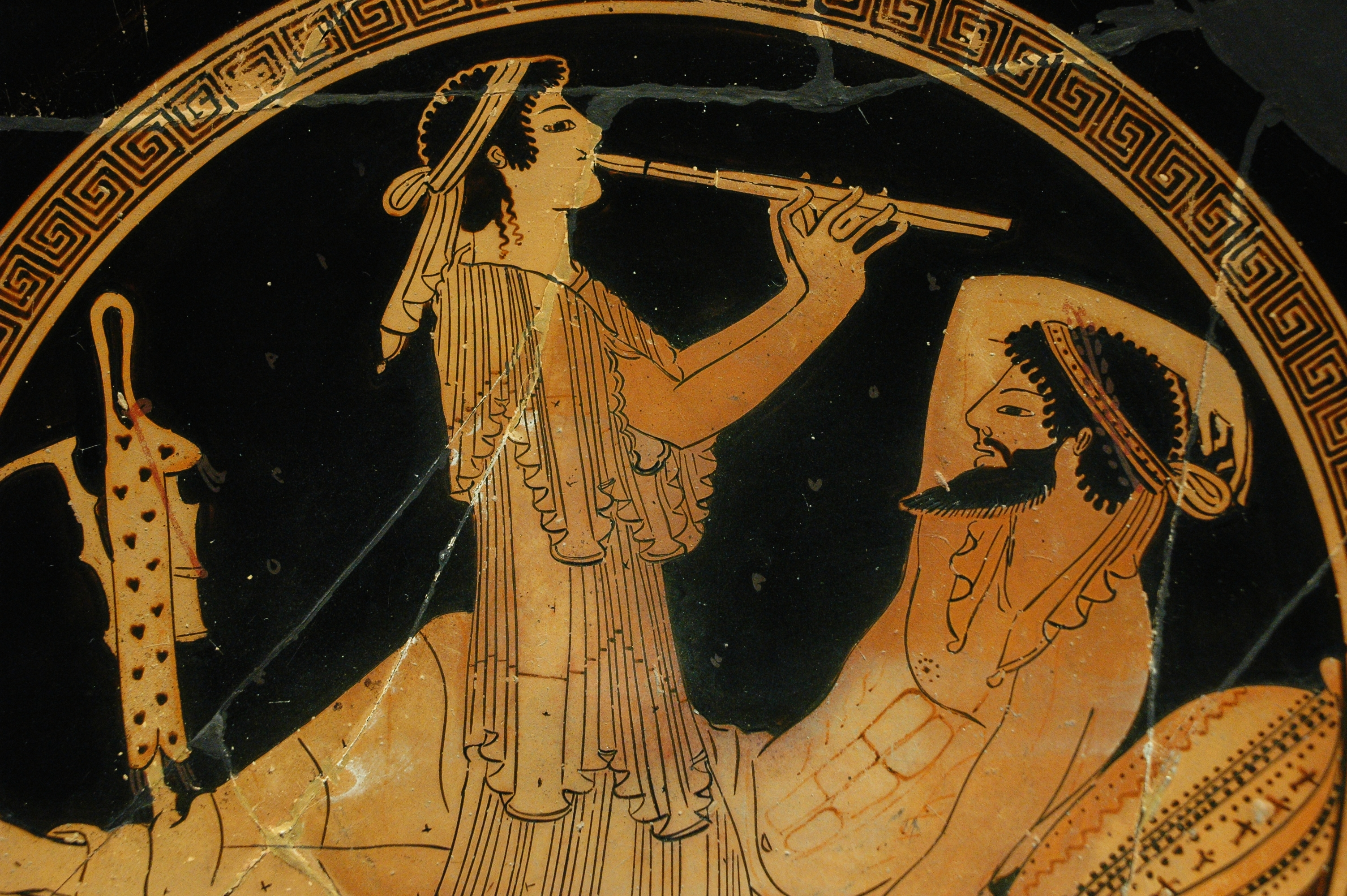 Banqueter and musician, detail. Tondo from an Attic red-figure cup, ca. 490 BC. Found in Vulci.